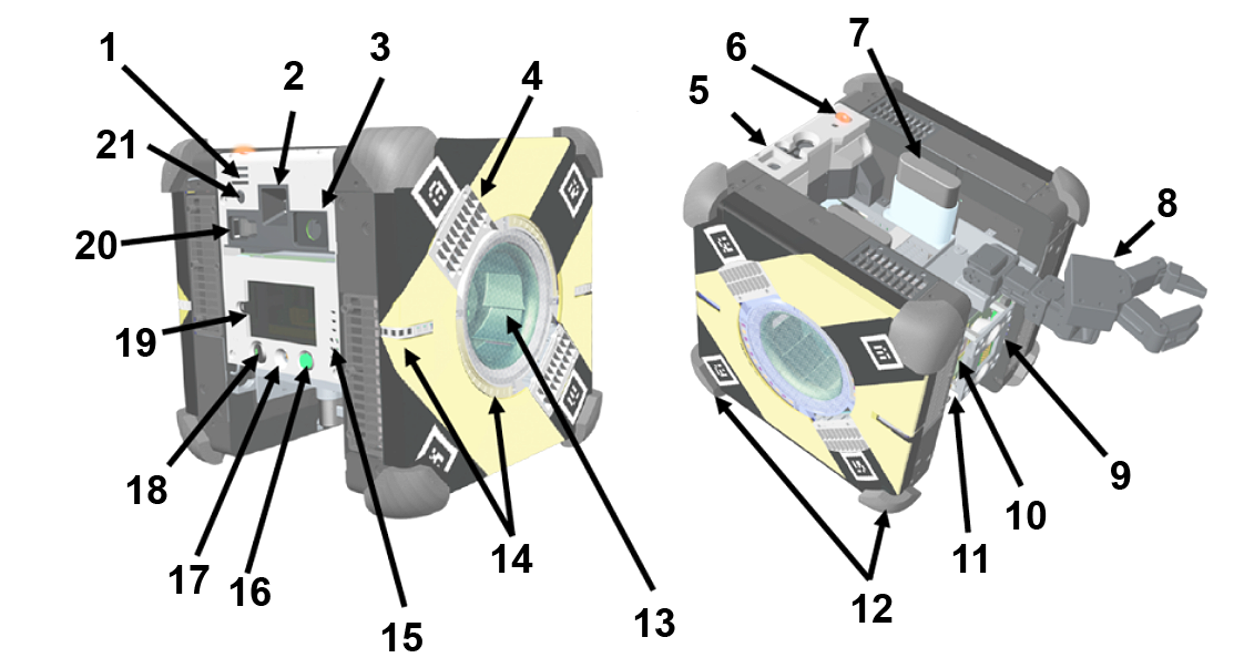 Diagram of the Astrobee robotic free flyer. (International space station)